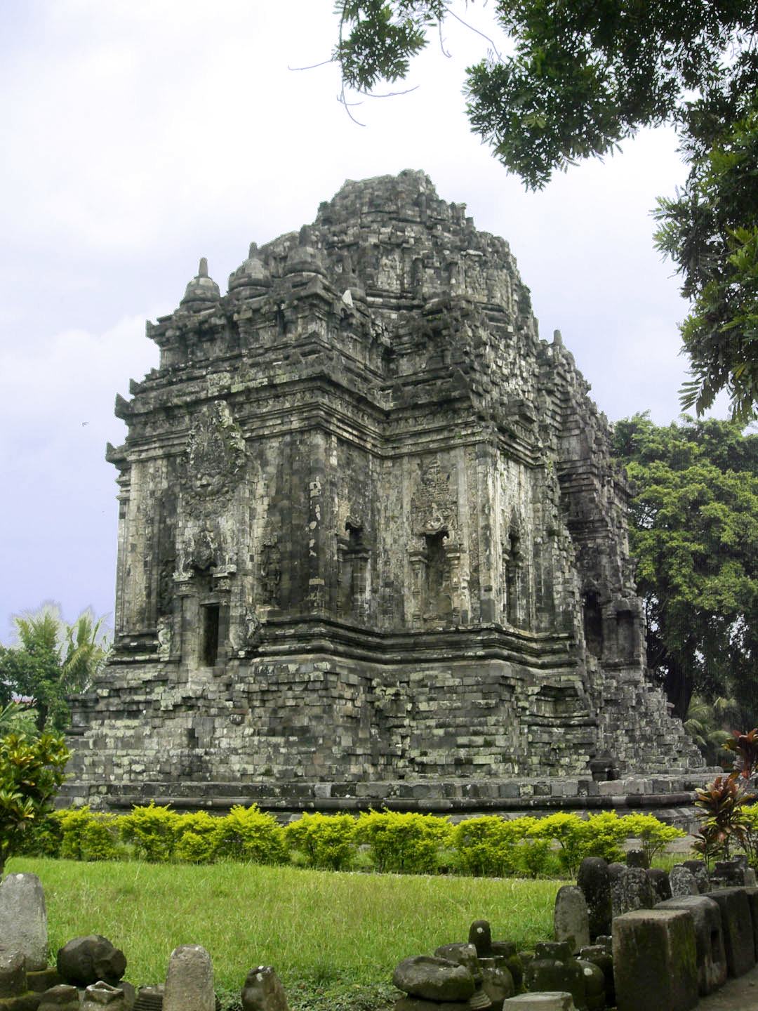 Kalasan Buddhist temple, at Kalasan, Sleman regency, Yogyakarta, Indonesia. Built by Sailendra dynasty in 8th century. Located near the south side of main road from between Yogyakarta and Prambanan.